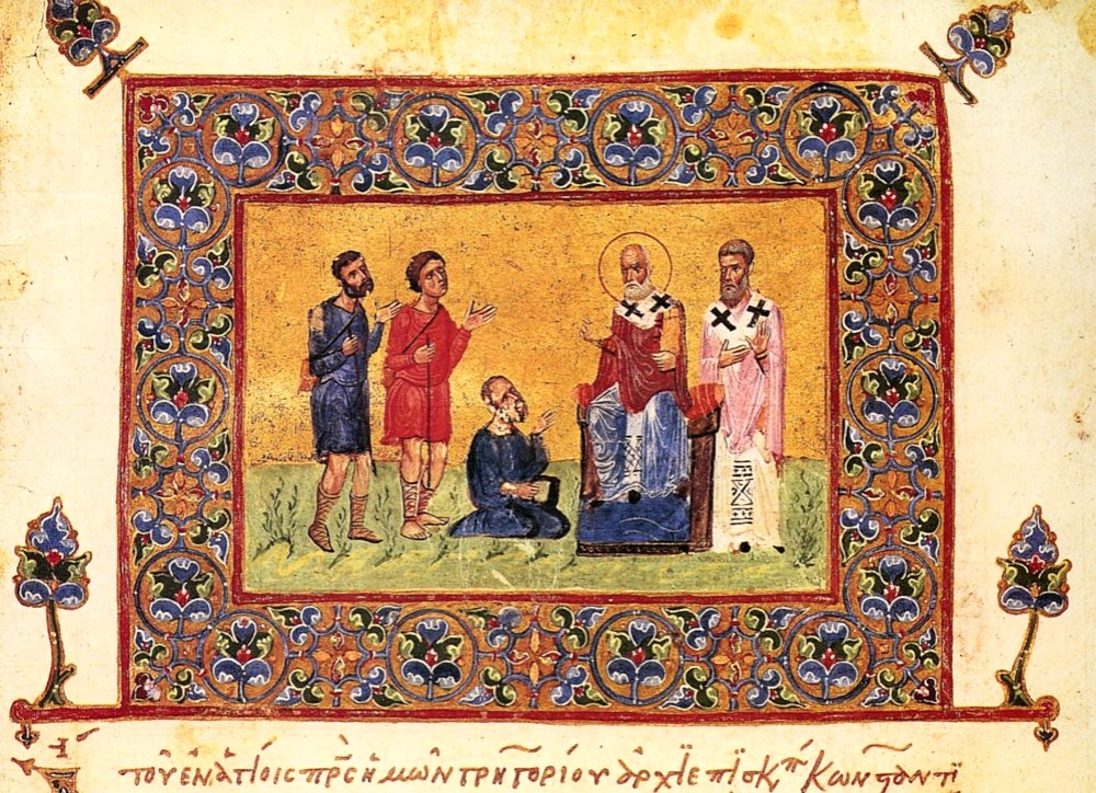 Gregory of Nazianzus and paupers (miniature, Homilies of Gregory Nazianzus, Agiou Panteleimonos monastery, Mount Athos, cod. 6)